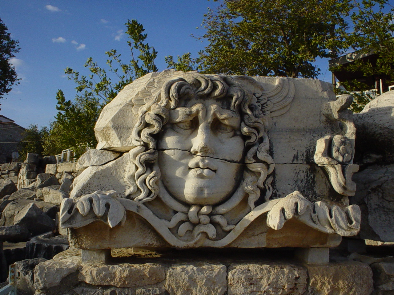 Taken by me November, 2004.